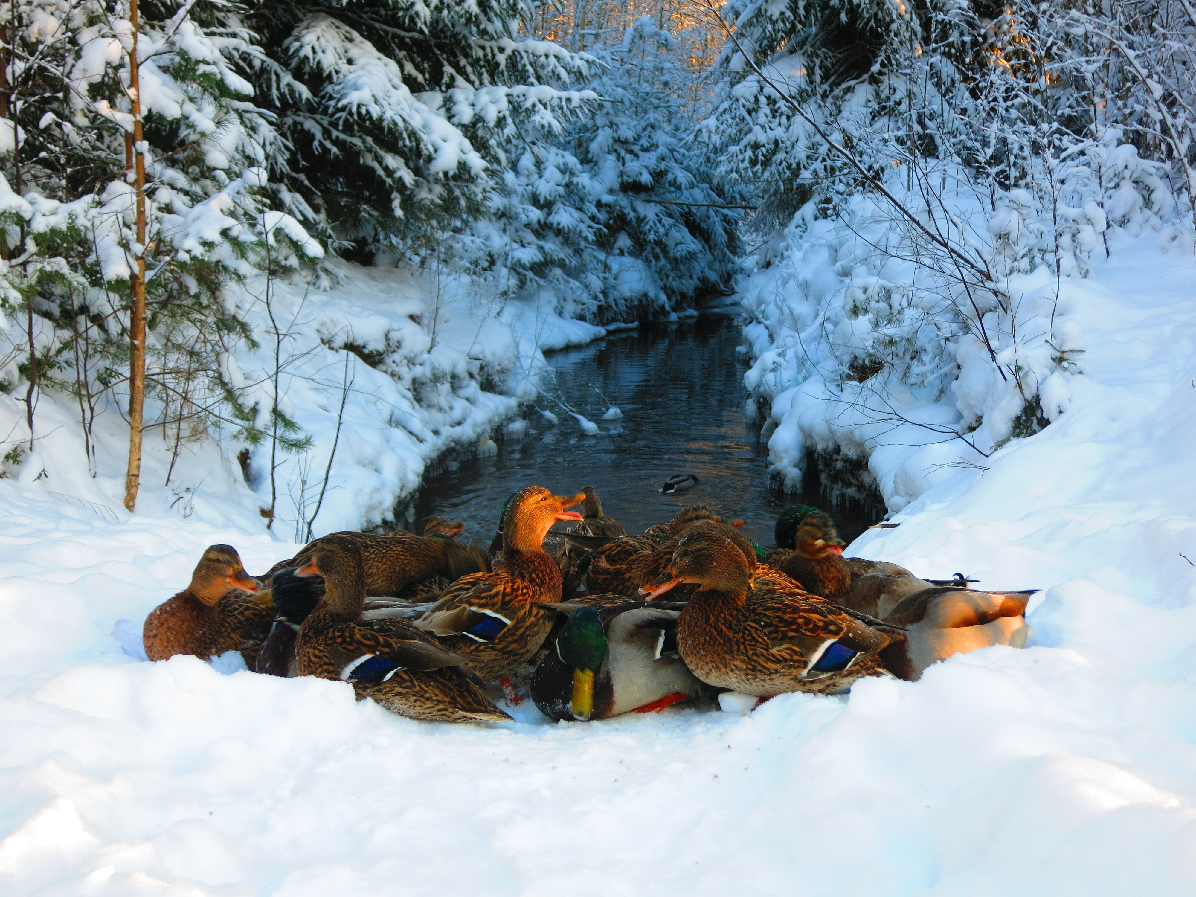 Mallards (Anas platyrhynchos), overwintering in Southern Finland